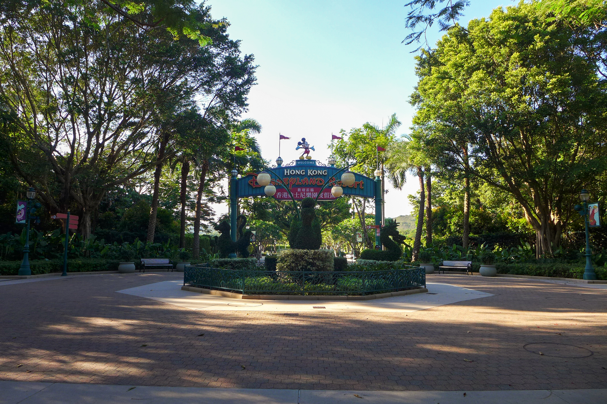 Hong Kong Disneyland Resort South Entrance Gate